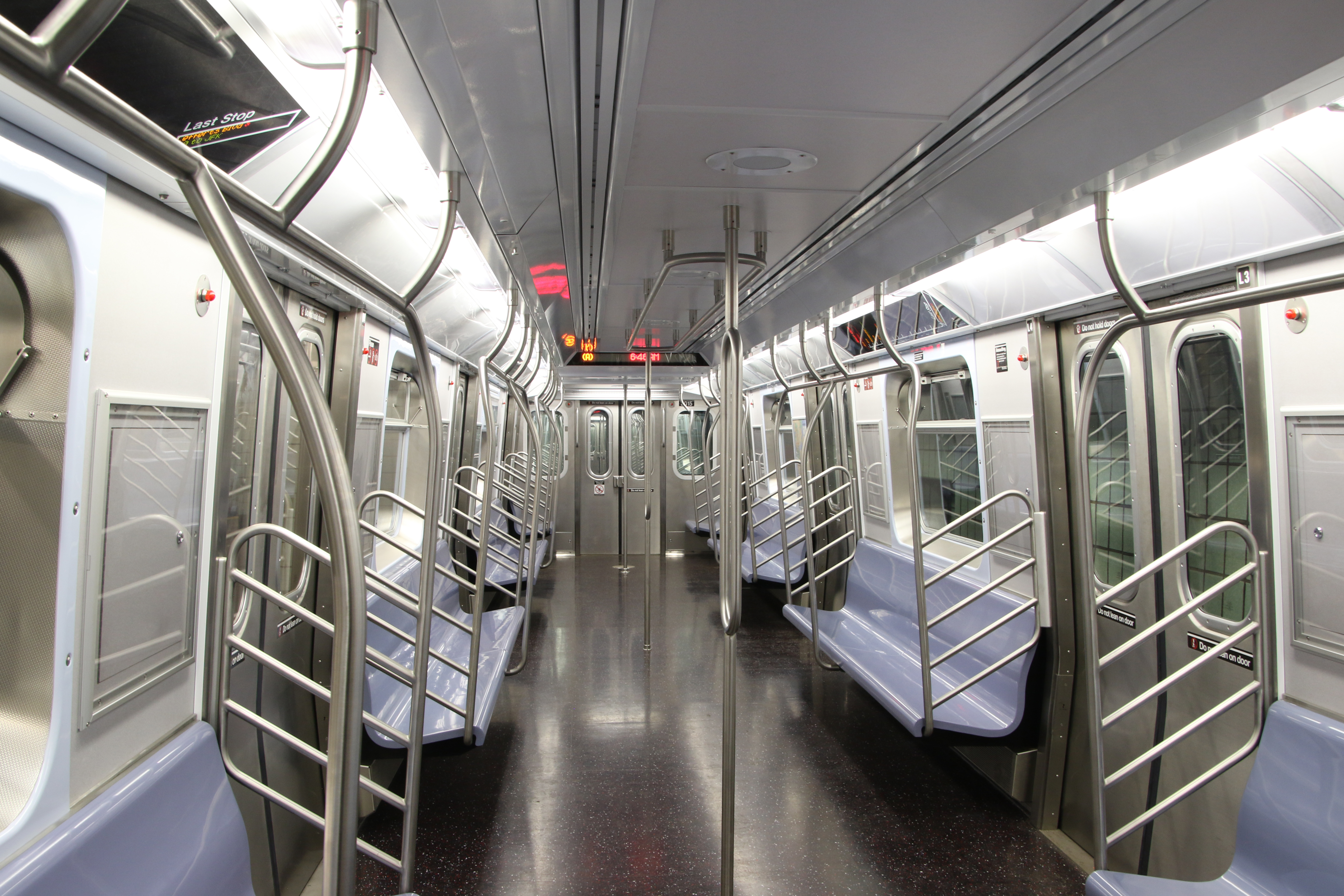 A view of the interior of MTA NYC Subway Bombardier Transportation R179 3015.